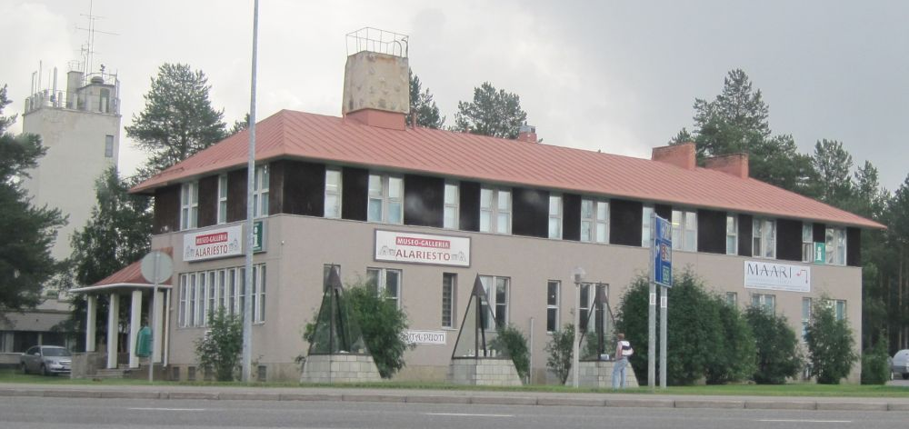 Alariesto Gallery in Sodankylä, Finland. Former Sodankylä municipal hall.